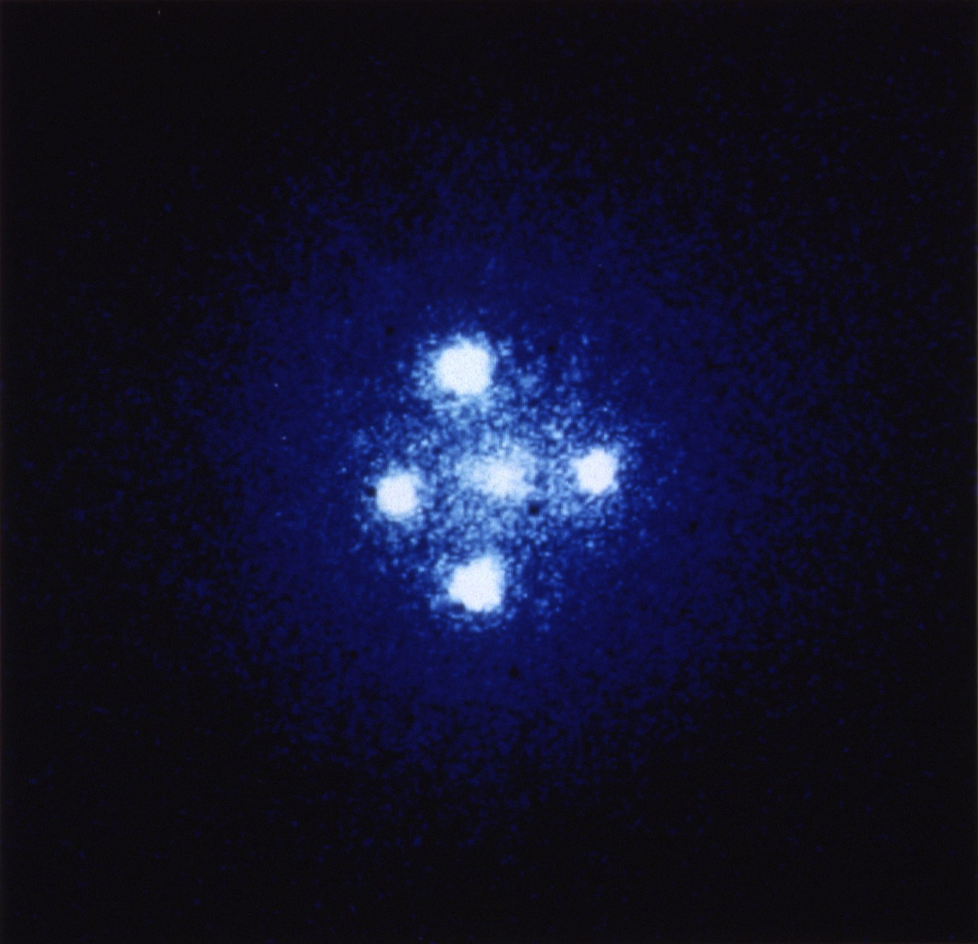 The European Space Agency's Faint Object Camera on board NASA's Hubble Space Telescope has provided astronomers with the most detailed image ever taken of the gravitational lens G2237 + 0305 — sometimes referred to as the Einstein Cross. The photograph shows four images of a very distant quasar which has been multiple-imaged by a relatively nearby galaxy acting as a gravitational lens. The angular separation between the upper and lower images is 1.6 arcseconds.